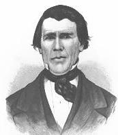 Willaim Kirby Sr, Hillsdale MI c 1879